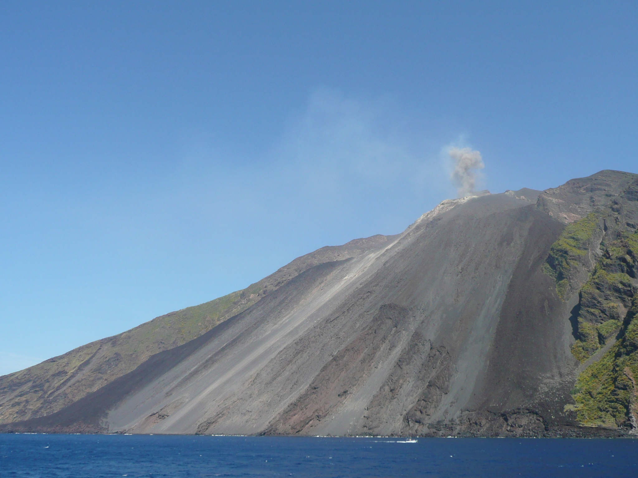 Picture of the Stromboli island/volcano (Eolian islands, Italy) taken the 5th of June (2009) Author: Delphine Bruyère, PhD in Geology